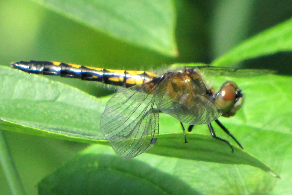 Belted Whiteface (Leucorrhinia proxima), Ottawa, Ontario, Canada